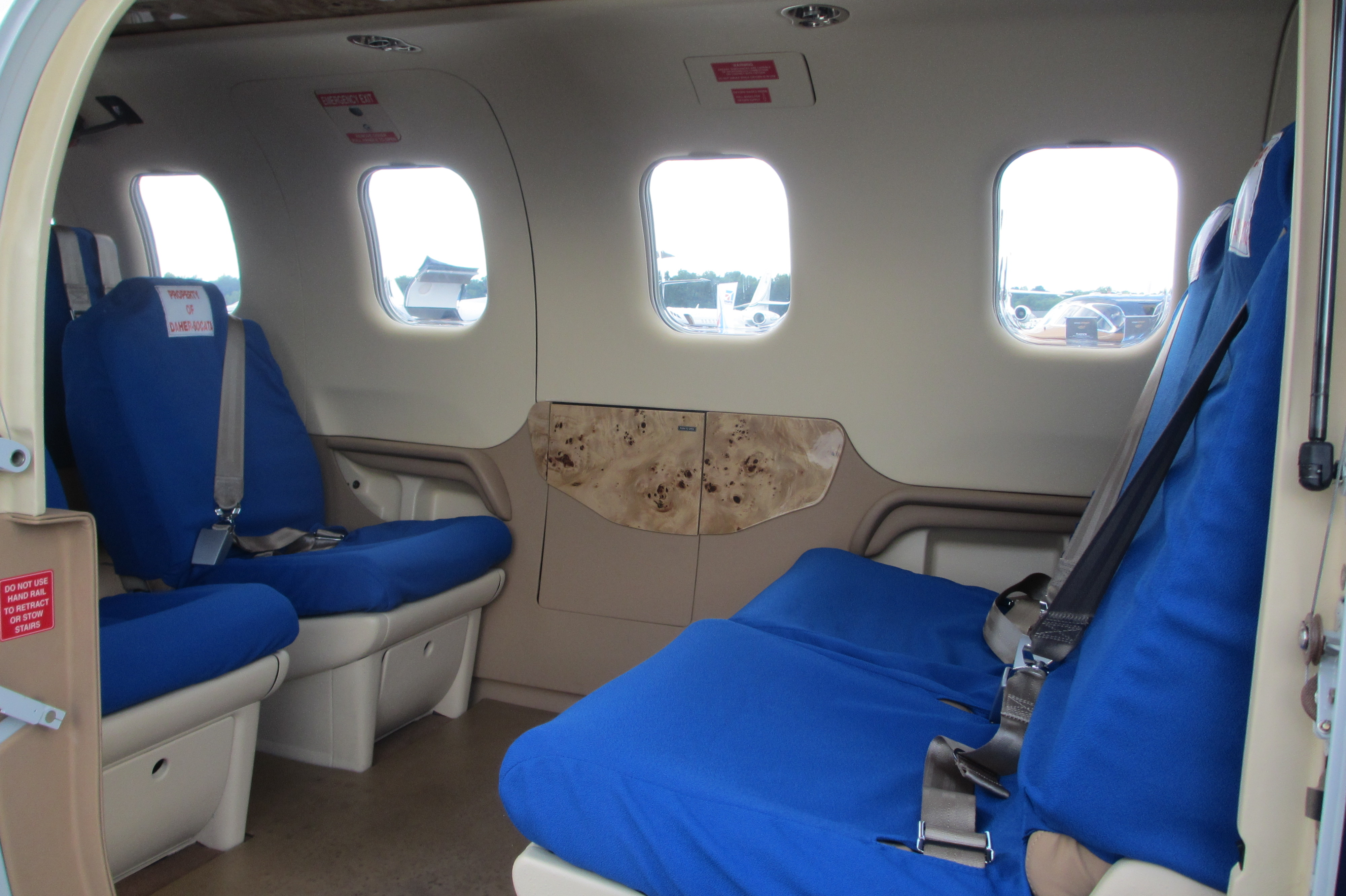 Daher-Socata TBM-850 cabin